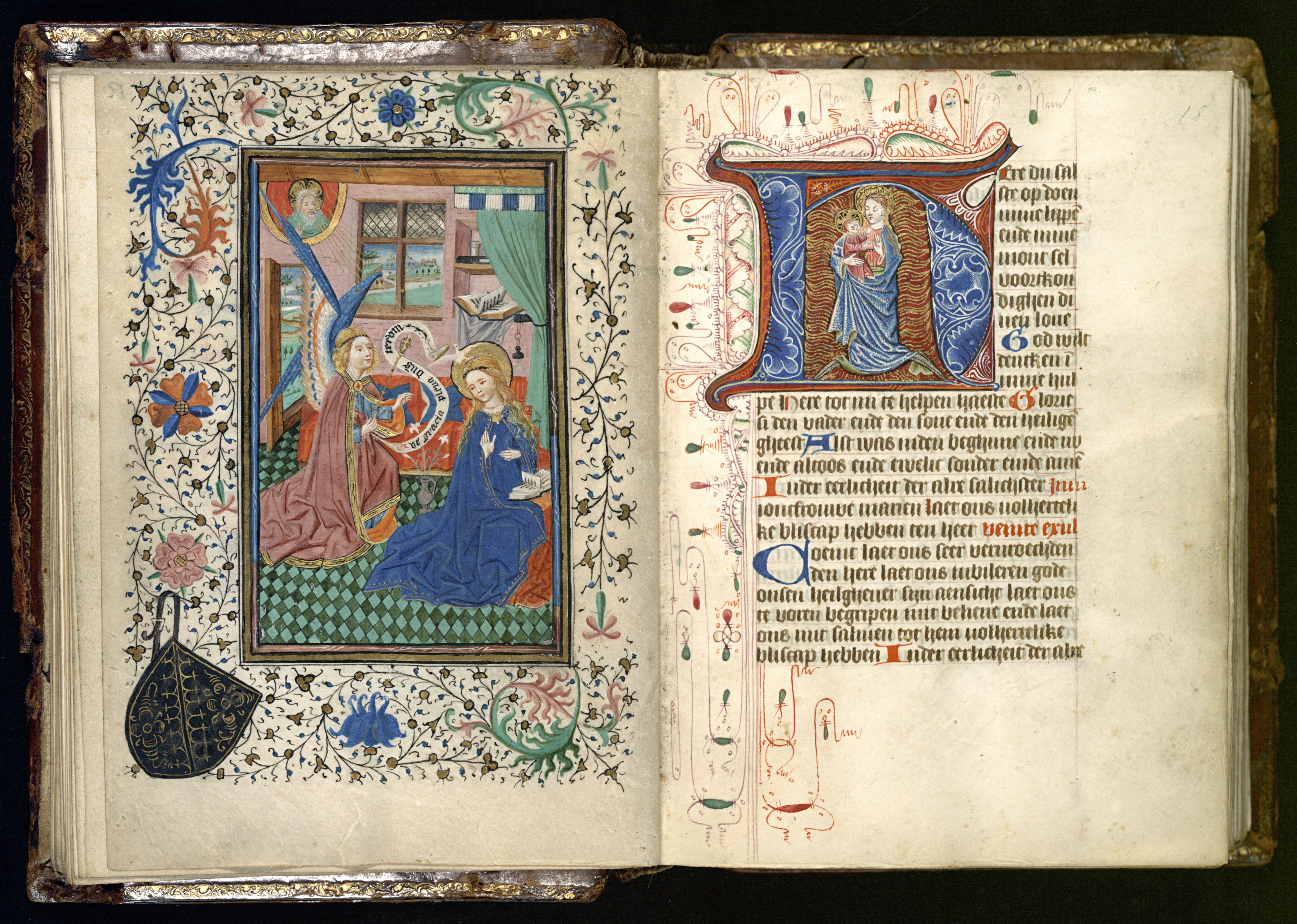 Lefthand side folio 017v; righthand side folio 018r from the Bout Psalter-Hours - KB 79 K 11